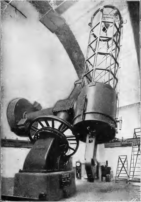 The 72 inch (1.83 meter) Plaskett telescope at the Dominion Astrophysical Observatory, Victoria, British Columbia, Canada, in 1920. The instrument was the second largest telescope in the world and narrowly missed being the largest; it was completed and saw "first light" on May 6, 1918, only 6 months after the 100 inch Hooker telescope at Mount Wilson Observatory, California. The glass primary mirror is 73 inches in diameter and 12 inches (30 cm) thick, weighs 4340 lbs (1970 kg), and has a 10 1/8 inch hole in the center for the Cassegrain focus. The main tube is 31 feet (9.4 meters) long and weighs 12 tons. It is still in active use.